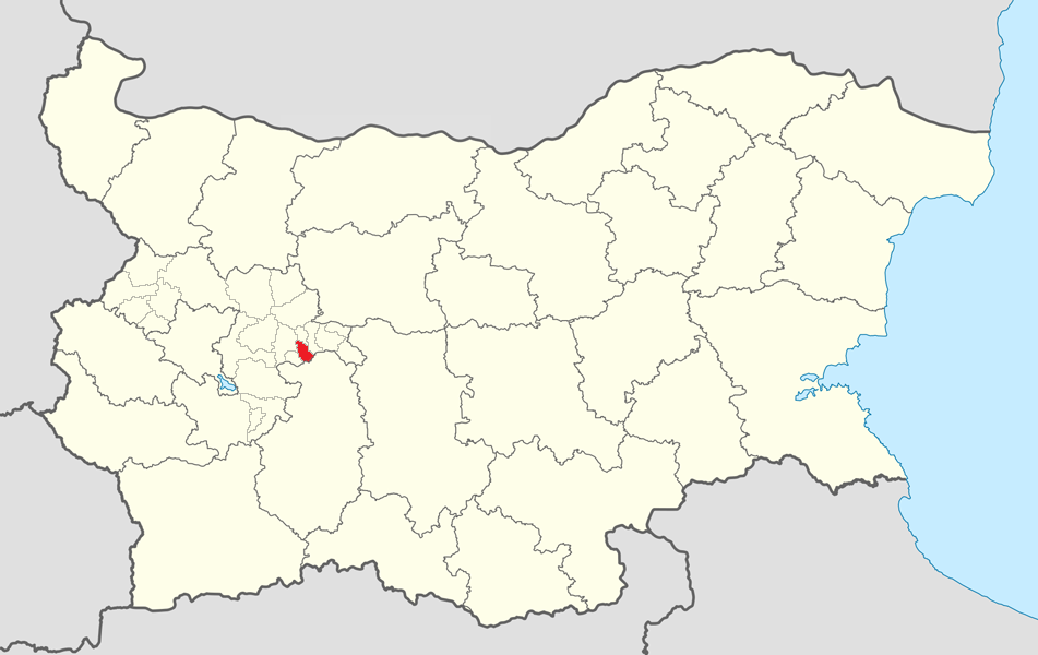 Location map of Chavdar Municipality within Bulgaria and Sofia province